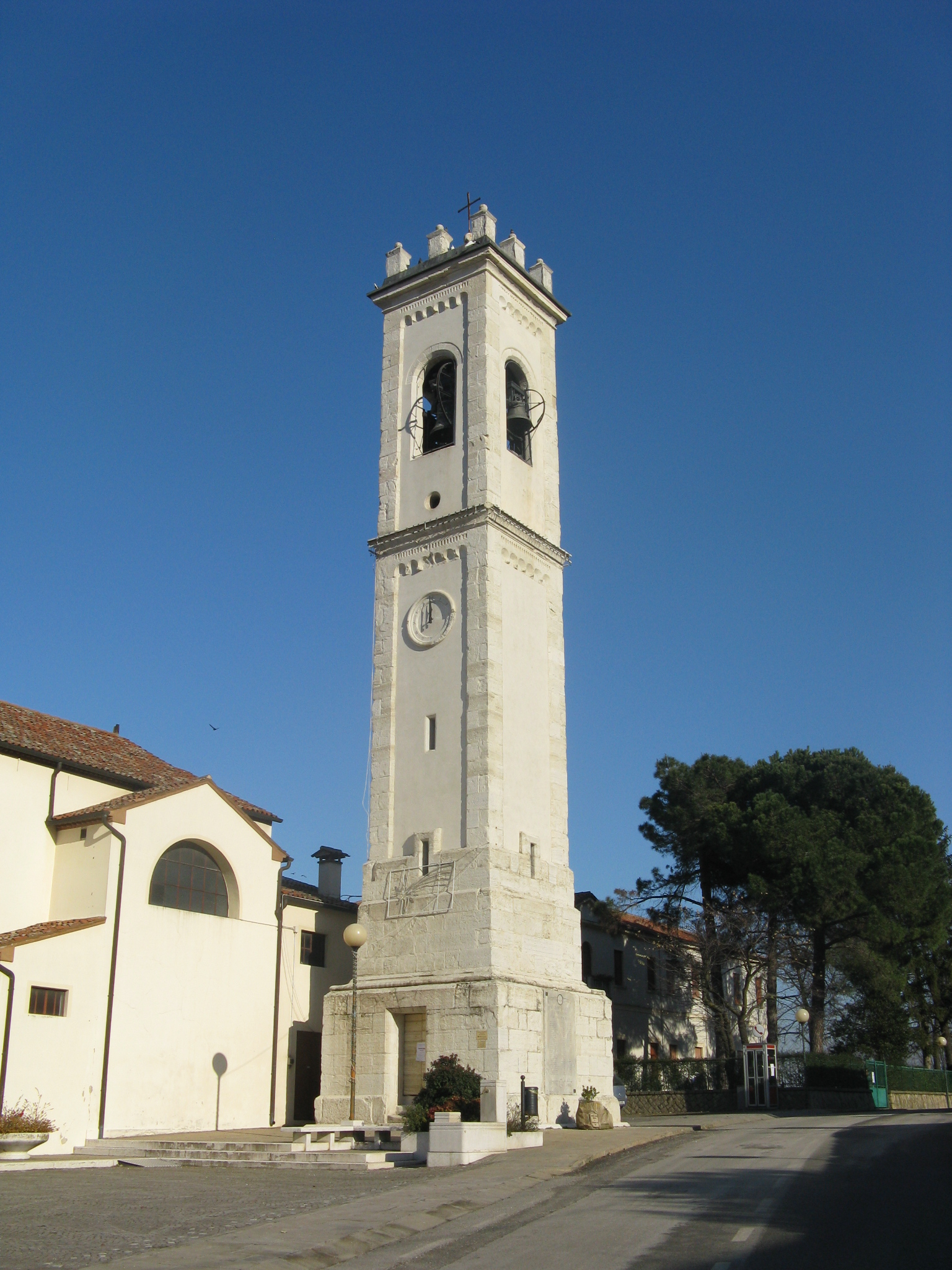 Rovolon, Veneto/Italy, San Giorgio bell tower